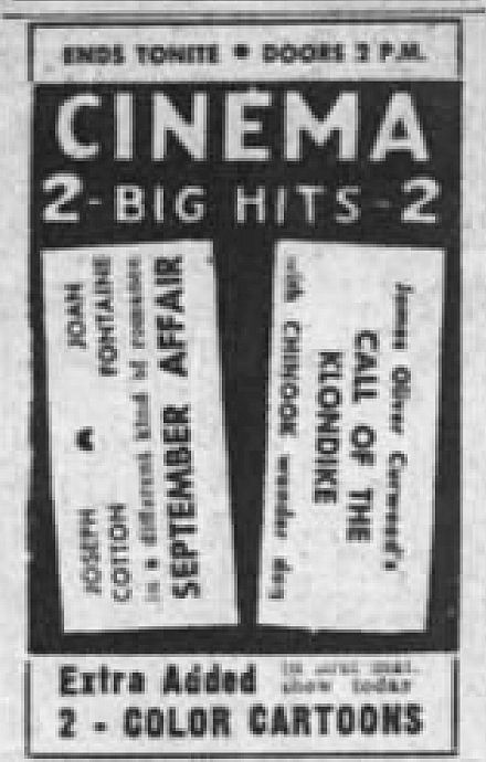 The Cinema Theater advertisement for the American films September Affair (1950) and Call of the Klondike (1950) - 1 Apr. 1951 Morning Call Allentown PA